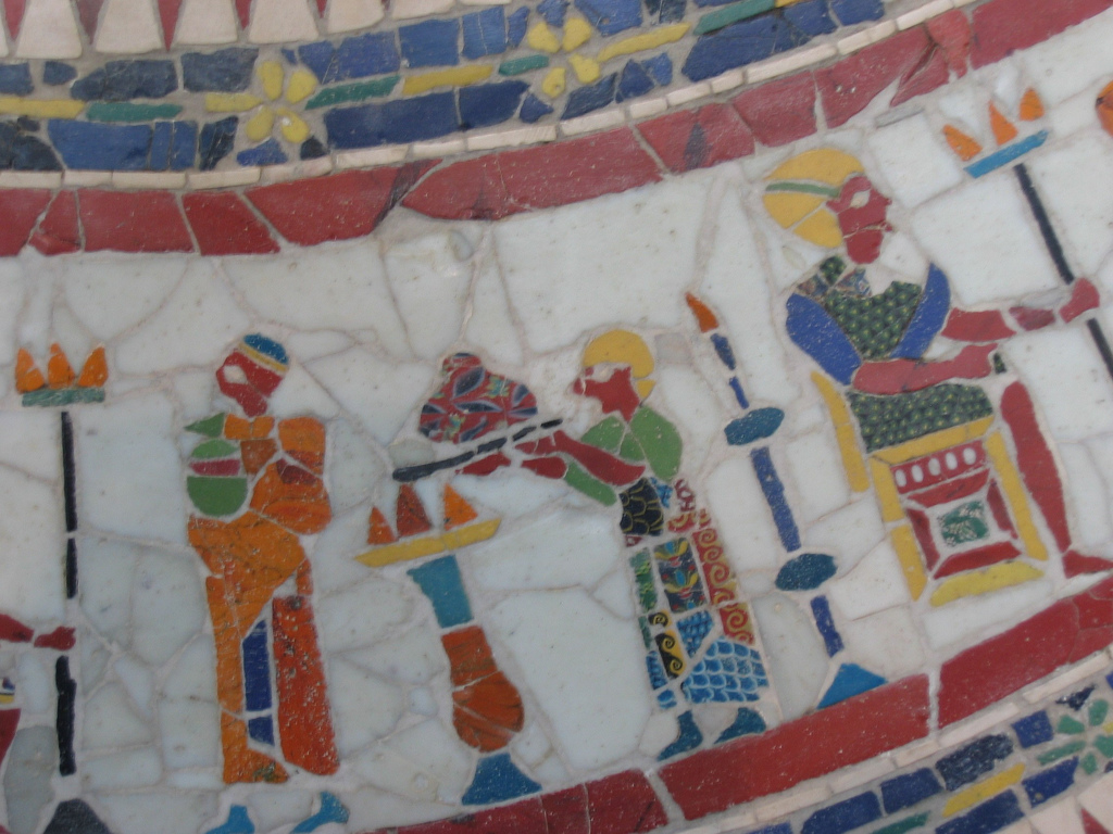 Opus sectile panel. Roman artwork, first half of the 4th century. From the basilica of Junius Bassus on the Esquiline Hill.